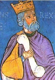 Alfonso VI of Castile